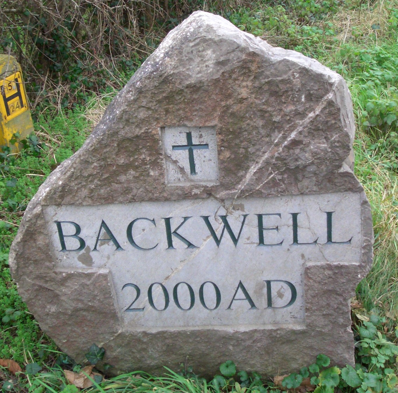 I took this photo of one of the year 2000 Backwell stones. This one is at grid reference ST479692 in Station Road, the road from Nailsea.